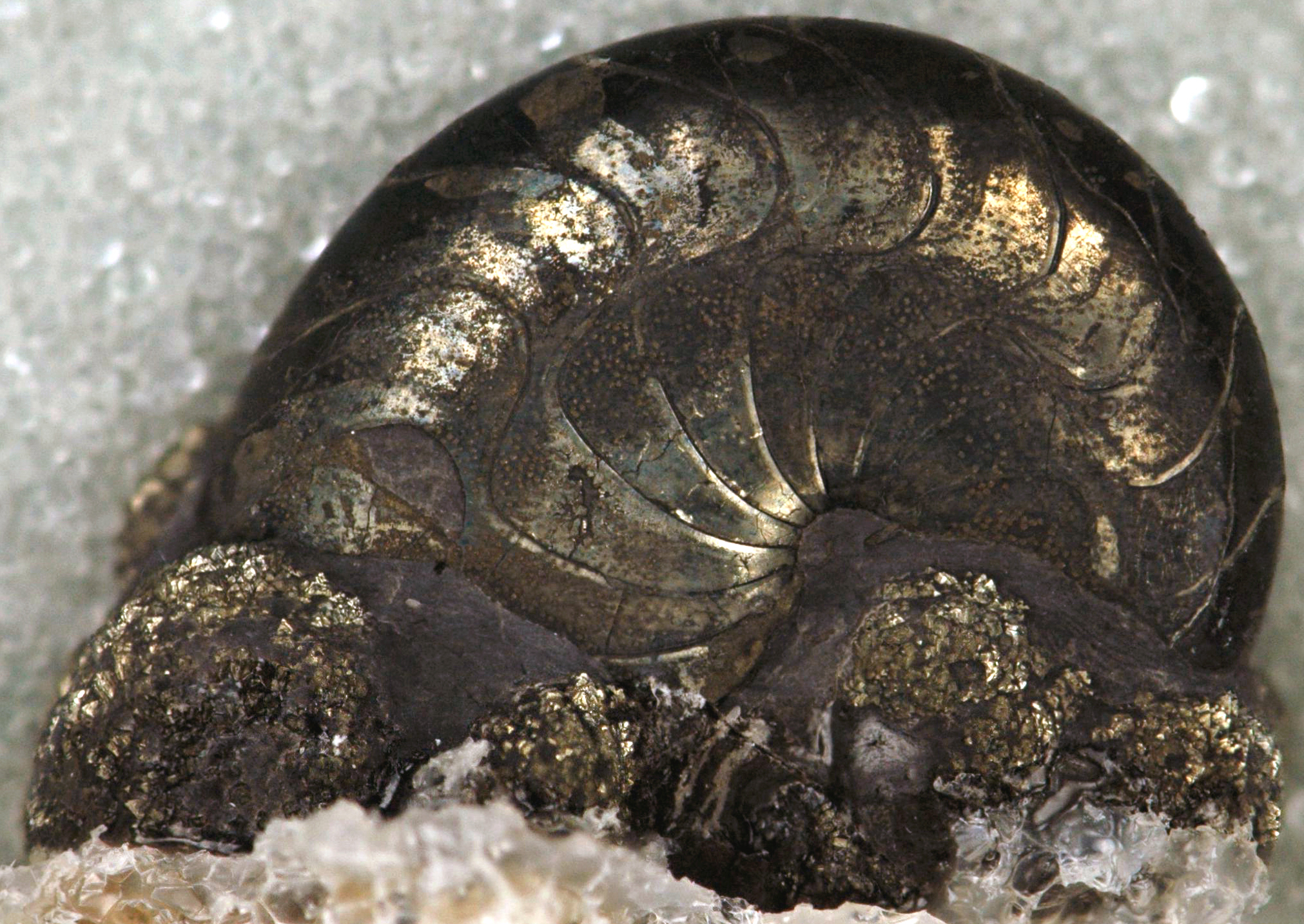 Tornoceras uniangulare aldenense House, 1965 pyritized fossil goniatite from the Devonian of New York State, USA (lateral view, 2.7 cm across). This is a pyritized internal mold of a coiled goniatite cephalopod in a pyrite concretion, from the famous Alden Pyrite Bed of New York State. Classification: Animalia, Mollusca, Cephalopoda, Ammonoidea, Goniatitida, Tornoceratidae Stratigraphy: Alden Pyrite Bed, Ledyard Shale Member, Ludlowville Formation, Middle Devonian Locality: western New York State, USA Replacement is a fossil preservation style involving the crystal structure and the mineral of an organism's hard parts being changed. The most common replacement mineral is quartz (silica) (SiO2) - fossils that have been replaced by quartz are said to be silicified (silicification). Many silicified fossils have rounded to pustulose structures covering their surfaces. These are called beekite rings, but they're composed of ordinary quartz. Other common replacment materials include the mineral pyrite (FeS2 - iron sulfide) and calcium phosphate. These replacement styles are called pyritization and phosphatization. Numerous other minerals have been found replacing minerals - many of them are quite rare. Reported fossil replacement minerals include: anglesite, apatite, barite, calamine, calcite, cassiterite, celestite, cerargyrite, cerussite, chalcocite, cinnabar, copper, dolomite, fluorite, galena, garnet, glauconite, gumbelite, gypsum, hematite, kaolinite, limonite, magnesite, malachite, marcasite, margarite, opal, pyrite, romanechite/psilomelane, siderite, silica/quartz, silver, smithsonite, specular hematite, sphalerite, sulfur, uranium minerals, and vivianite. (List mostly from info. in Hartzell, 1906 and Klein & Hurlbut, 1985)